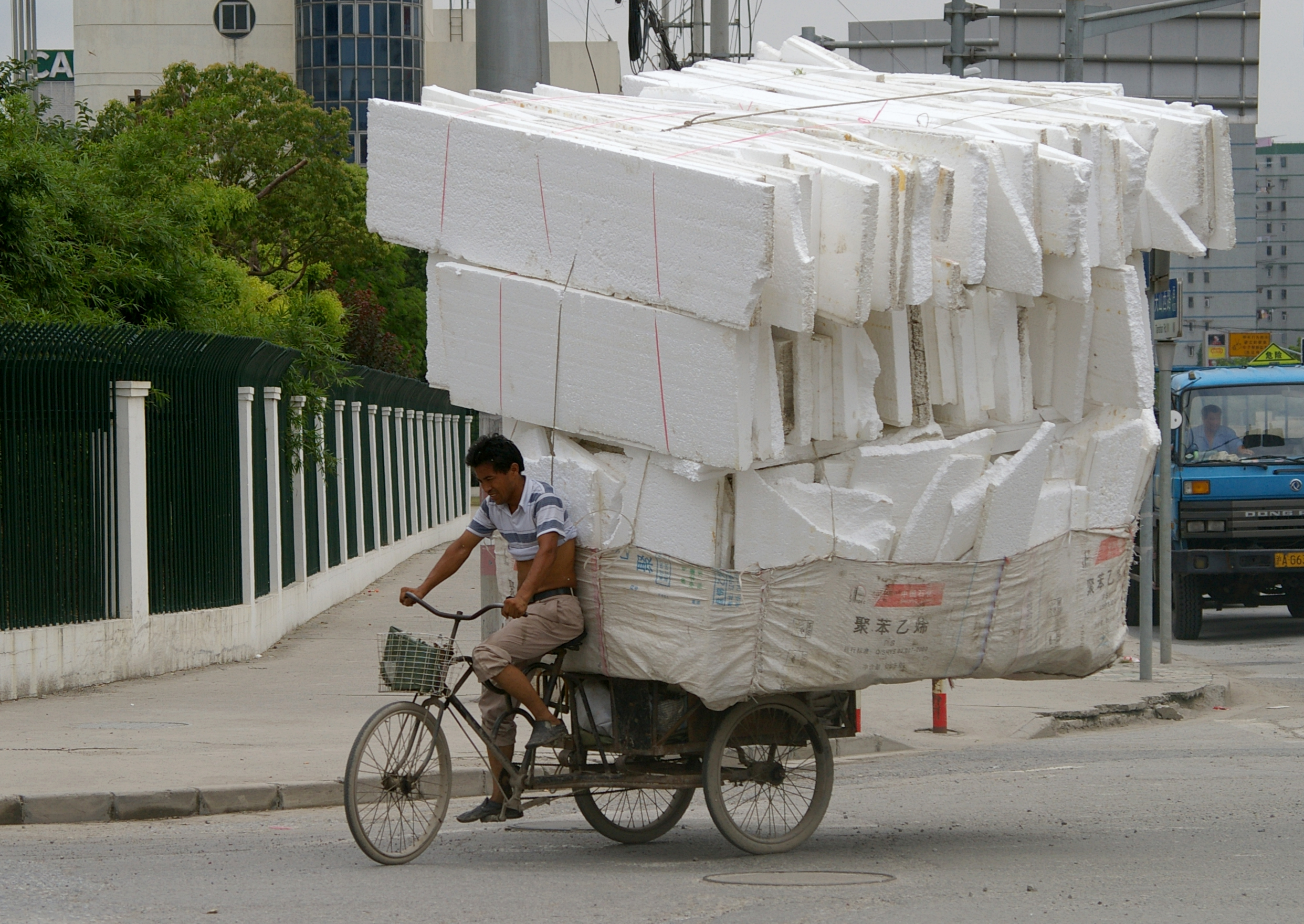 A man is riding a tricycle with heavy load on the streets of Shanghai